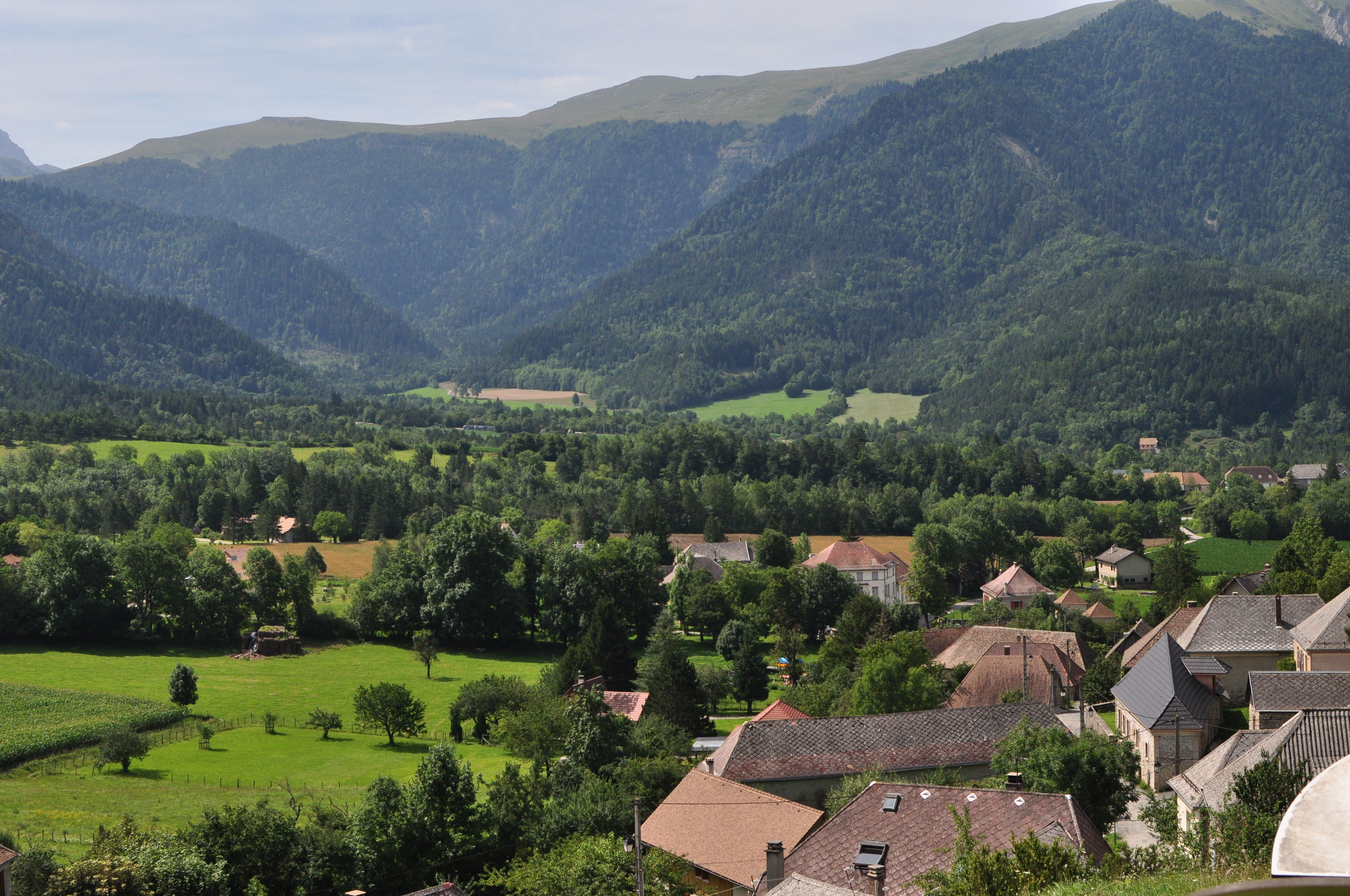 Tréminis with view on Col de la Croix